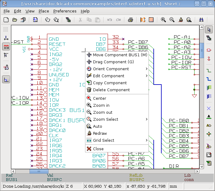 KiCad Eeschema - Access to commands